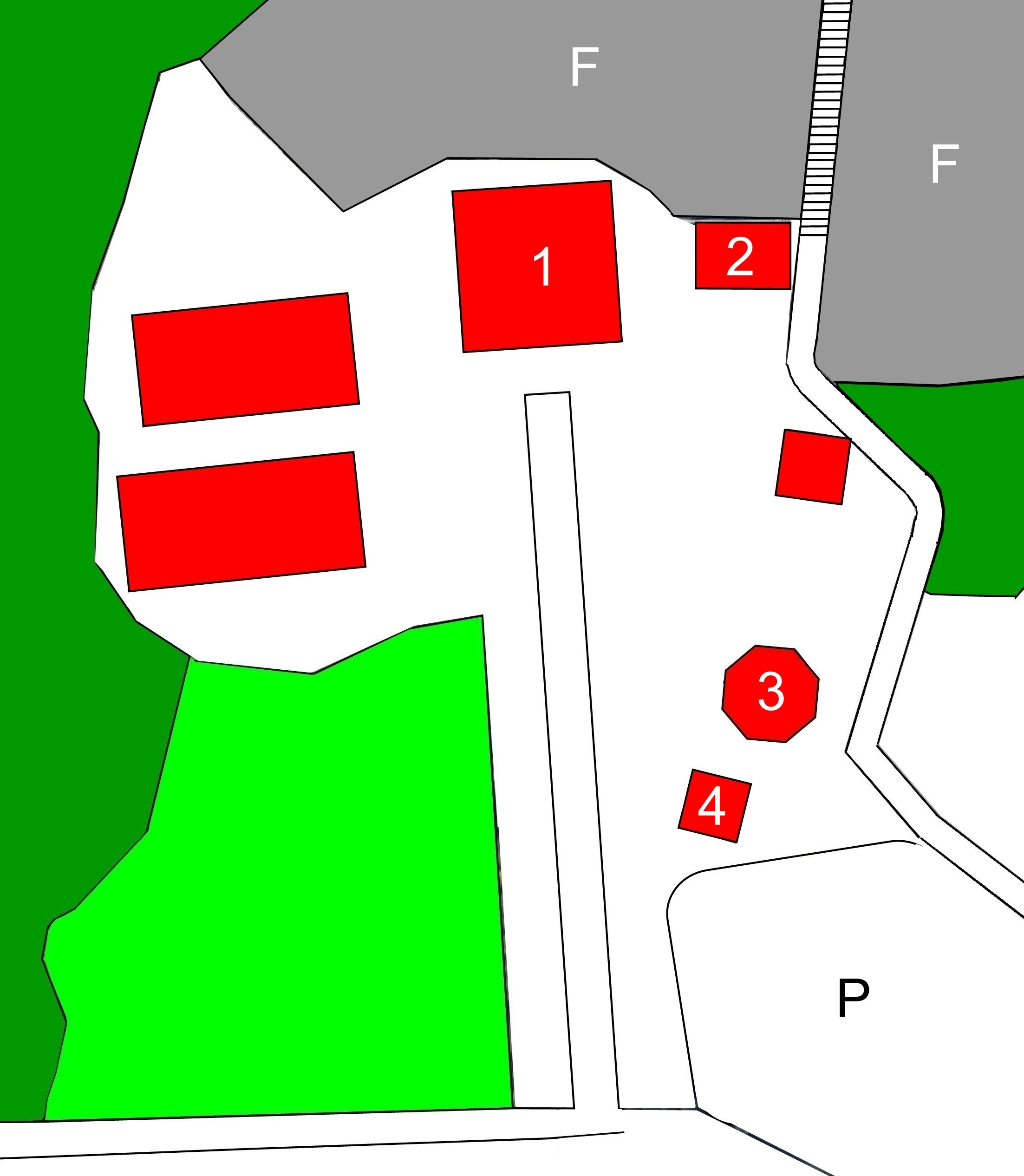 Layout of Taihô-ji (Matsuyama), Pref. Ehime, Japan